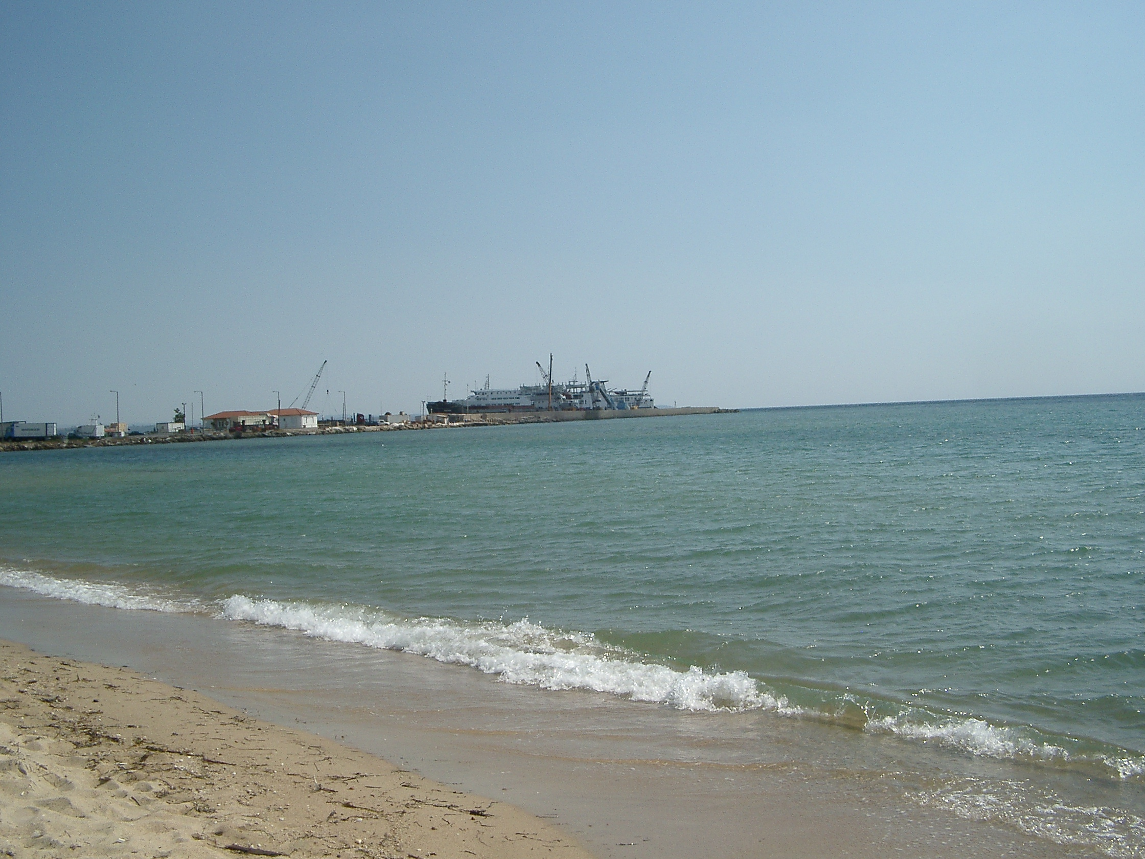 Nea Moudania Harbour and Beach, Chalcidice, Greece